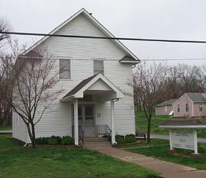 Headquarters of the Church of Jesus Christ (Cutlerite) in Independence, Missouri.